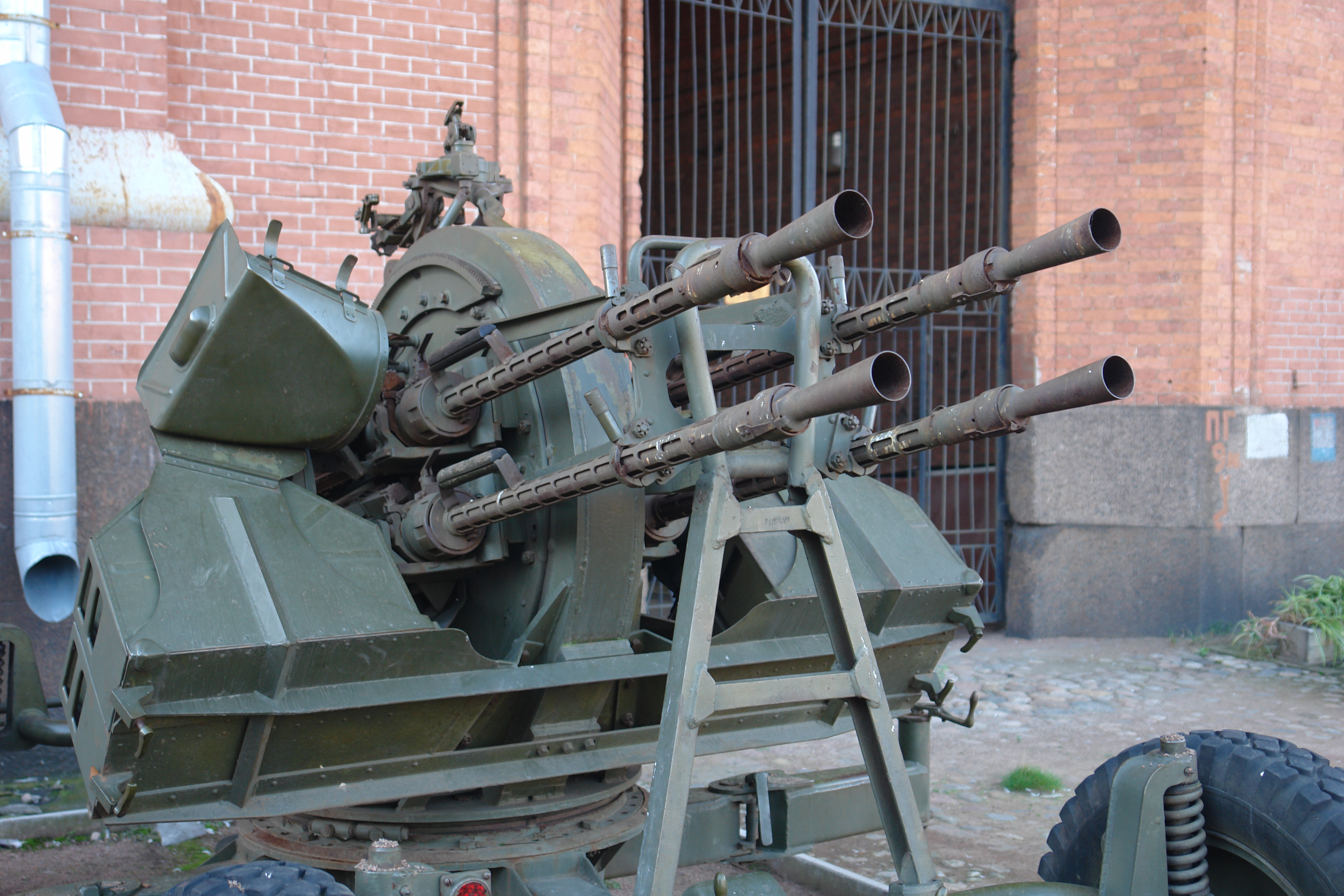 14.5-mm quad design Leszczynski ZPU-4. Designed to combat aircraft at altitudes up to 2,000 metres (6,600 ft) and against lightly armored ground targets. Fires at a rate of 600 rounds / min. Unit weight 2,100 kilograms (4,600 lb). 29.09.2007